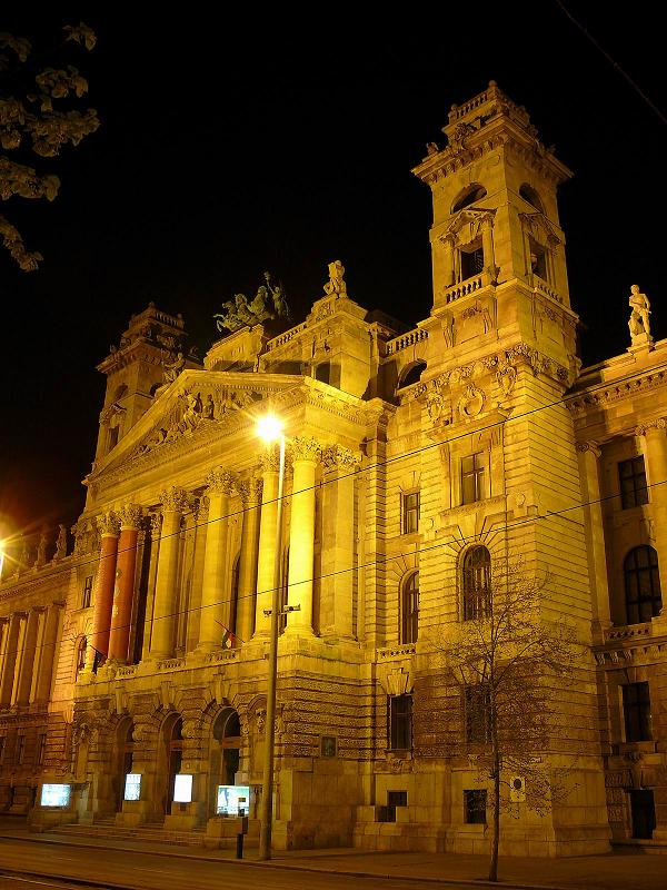 The Ethnographical Museum in Budapest